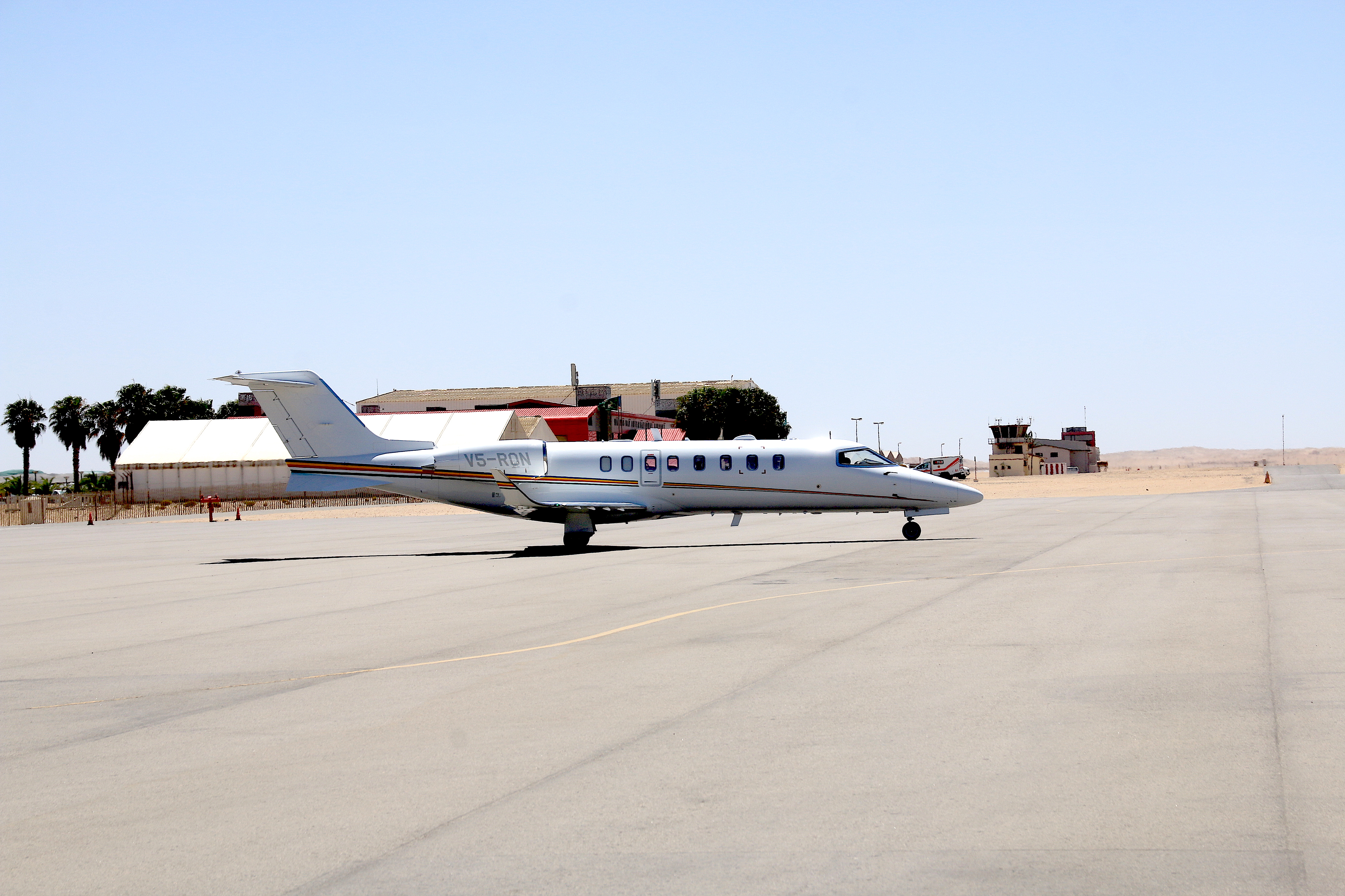 V5-RON at FYWB (2019)